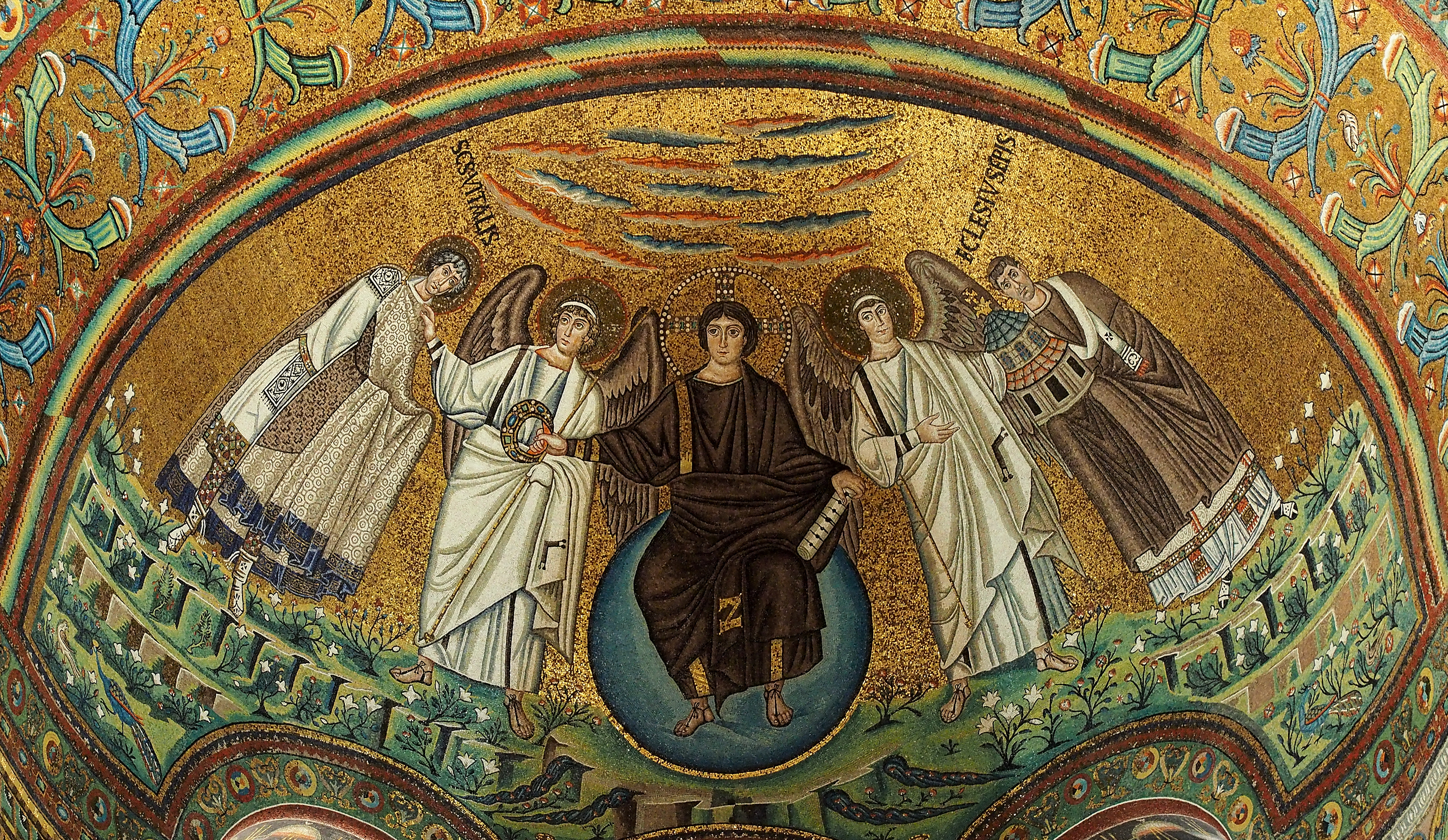 Apse mosaic in basilica of San Vitale, Ravenna, Italy. Built 547. A.D. UNESCO World heritage site. On mosaic from left side: St. Vitalis, archangel, Jesus Christ, second archangel and Bishop of Ravenna Ecclesius. This photograph was taken with an Olympus E-P5